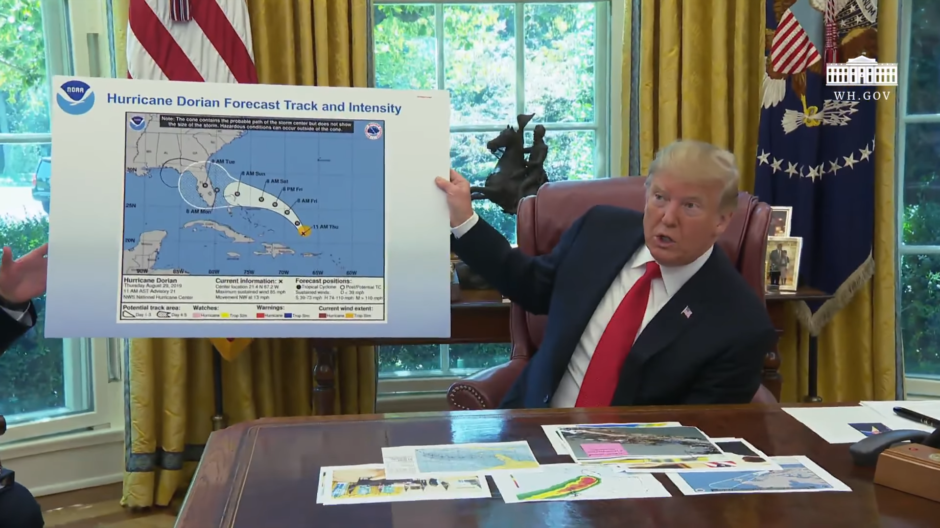 President Trump holding a hurricane projection map with the projection expanded into Alabama with a Sharpie marker, approximately 32 seconds into the source video.